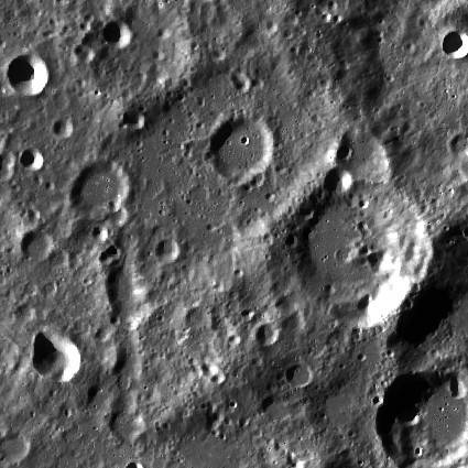 LROC image . Hagen at upper center.